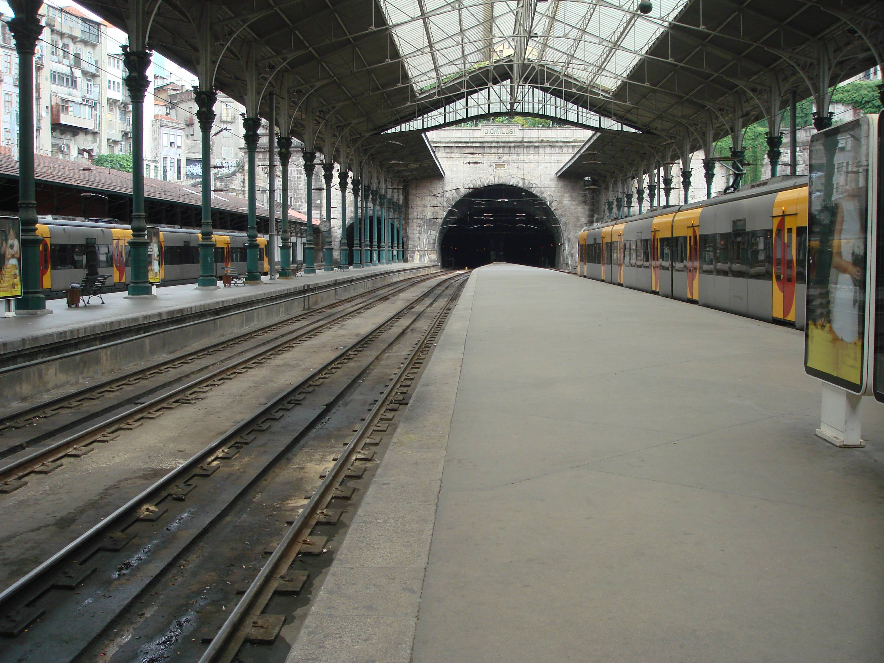 Sao Bento Train Station in Porto Portugal